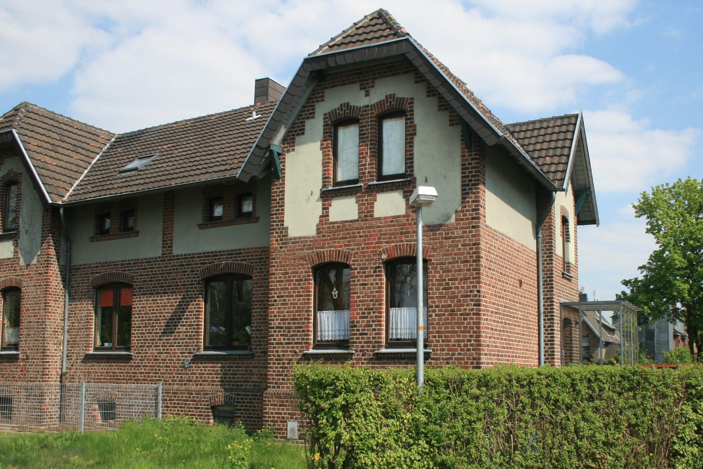 Cultural heritage monument No. 1/001n in Düren